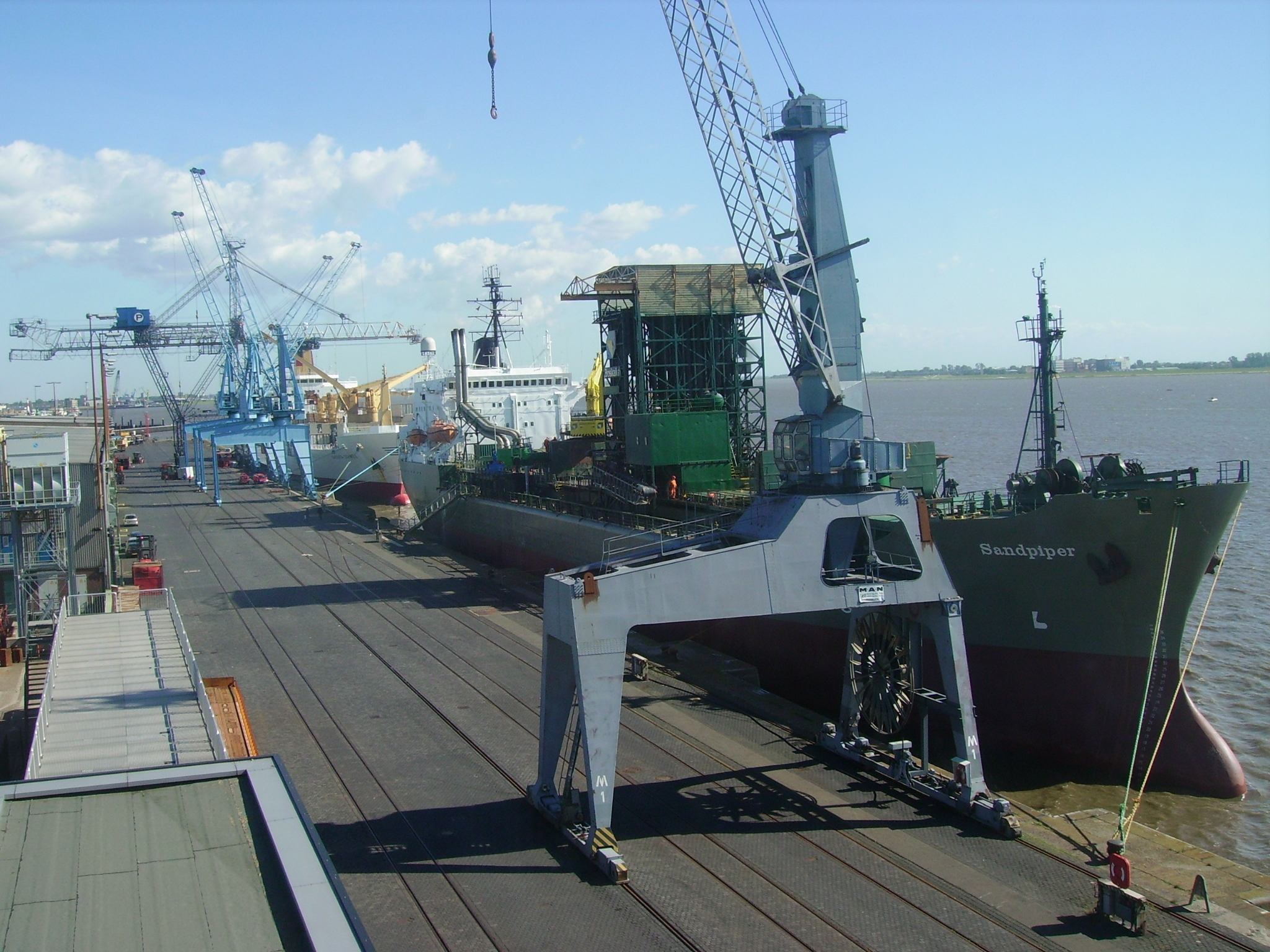 The fall-pipe vessel (stone carrier) Sandpiper in Bremerhaven